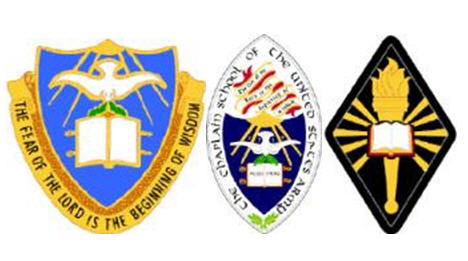 The US Army Chaplain Center and School is part of the U.S. Armed Forces Chaplaincy Center, Ft. Jackson, Columbia, SC. These are three images used by the Army regarding the school: the insignia, the device, and the shoulder sleeve insignia (patch).